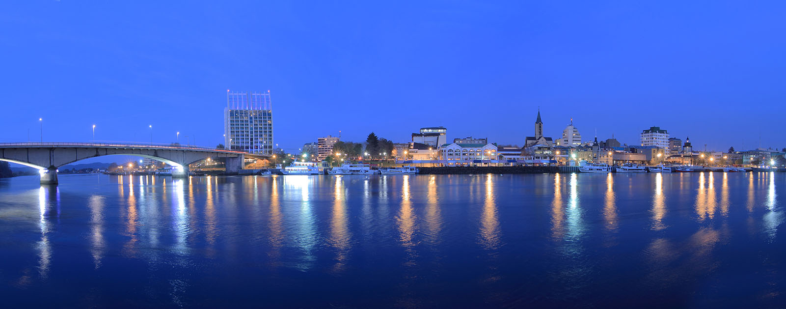 Valdivia Chilean Costanera